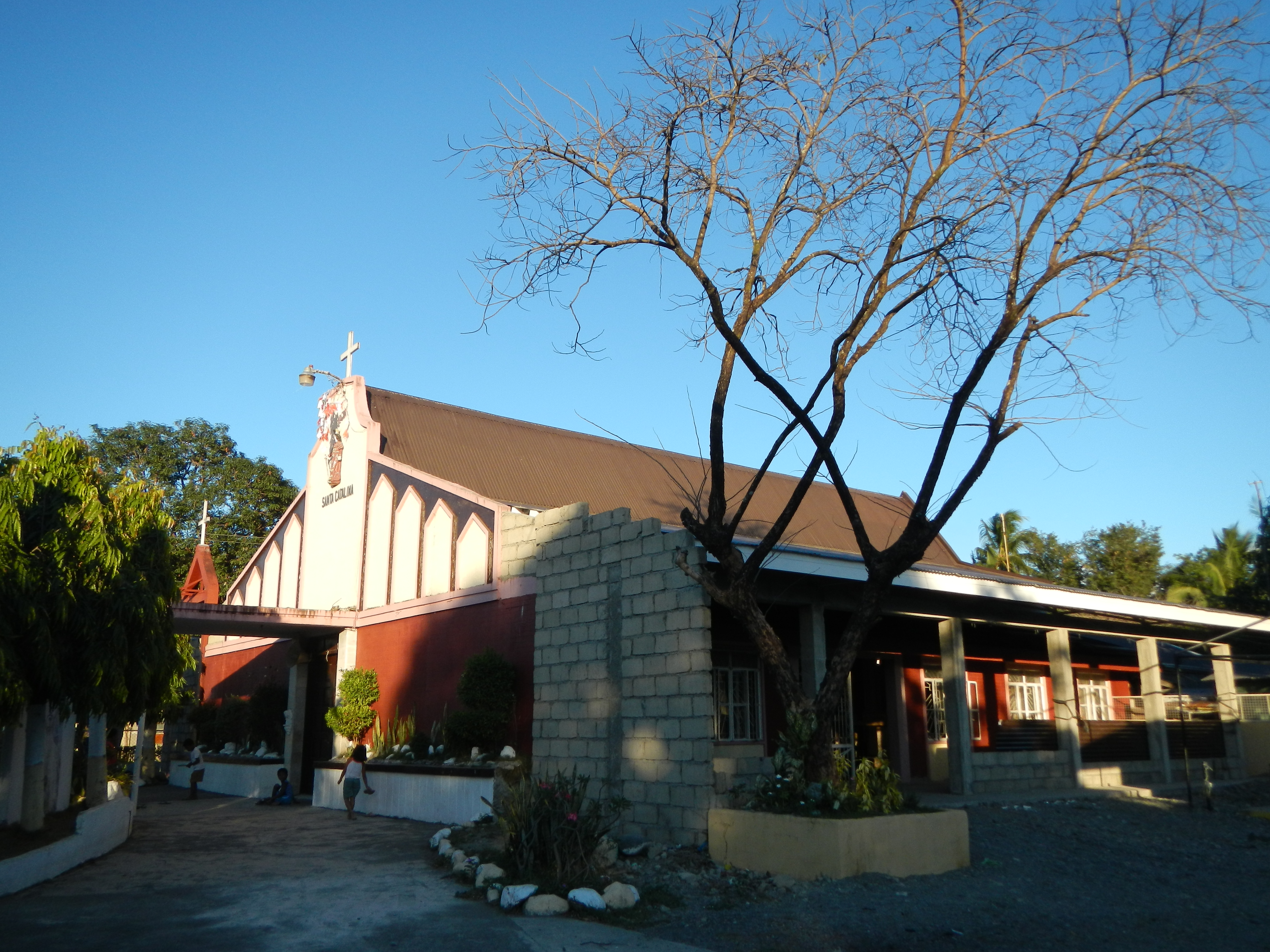 [1]Bongabon, Nueva Ecija is a second class municipality in the province of Nueva Ecija, Philippines. According to the 2010 census, it had a population of 59.343 people. It has an area of 28,352.90 hectares (70,061.5 acres), and is the leading producer of onion ("Onion Capital of the Philippines") in the Philippines and in Southeast Asia.[2]Hon. Amelia A. Gamilla Municipal MayorHon. Edmond E. Arive - Municipal Vice Mayor[3] Santol (present day Santor) was established in 1659, Santa Catalina Chapel [4]Bongabon, Nueva Ecija